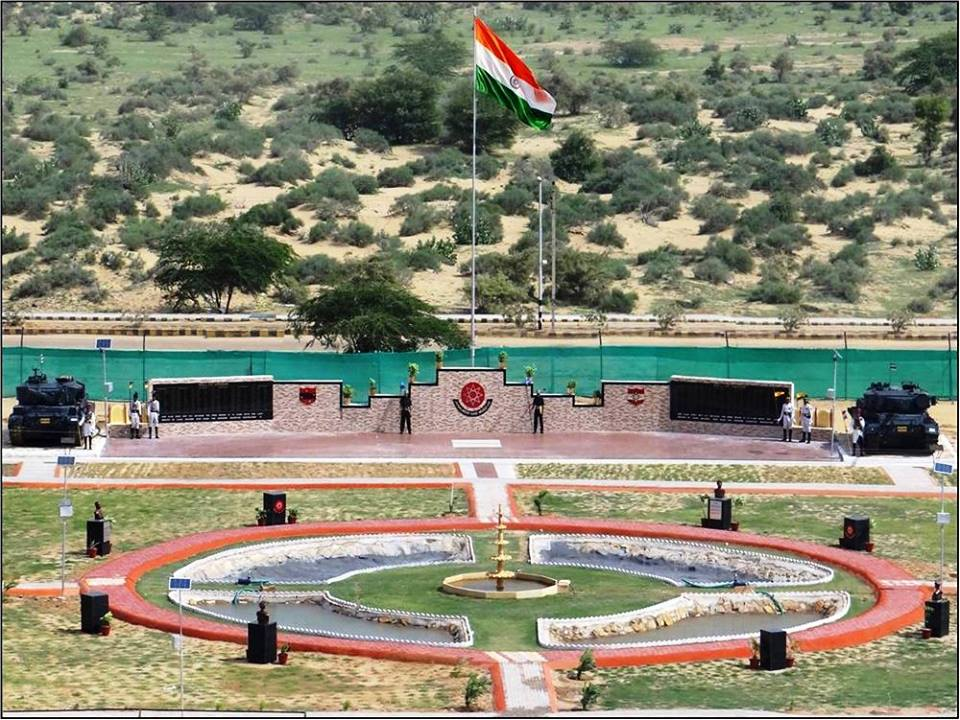 The Honour Walls at Jaisalmer War Museum with the names of Gallantry Award winners etched for posterity.